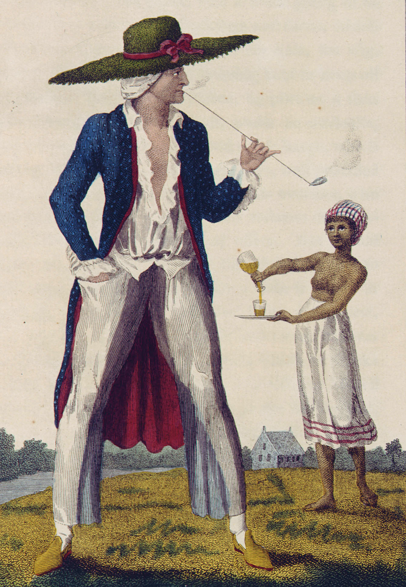 A Surinam Planter in his Morning Dress detail